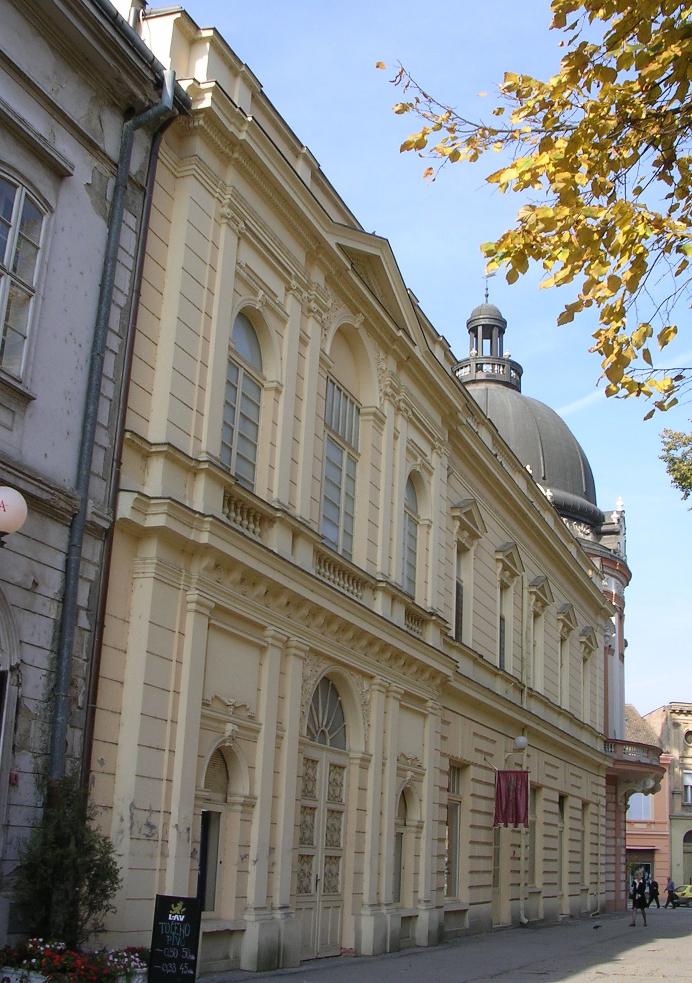 The building of amateur theater "Dobrica Milutinovic" in Sremska Mitrovica